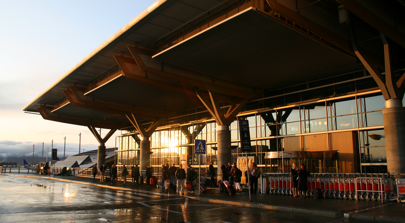 OSL AIRPORT